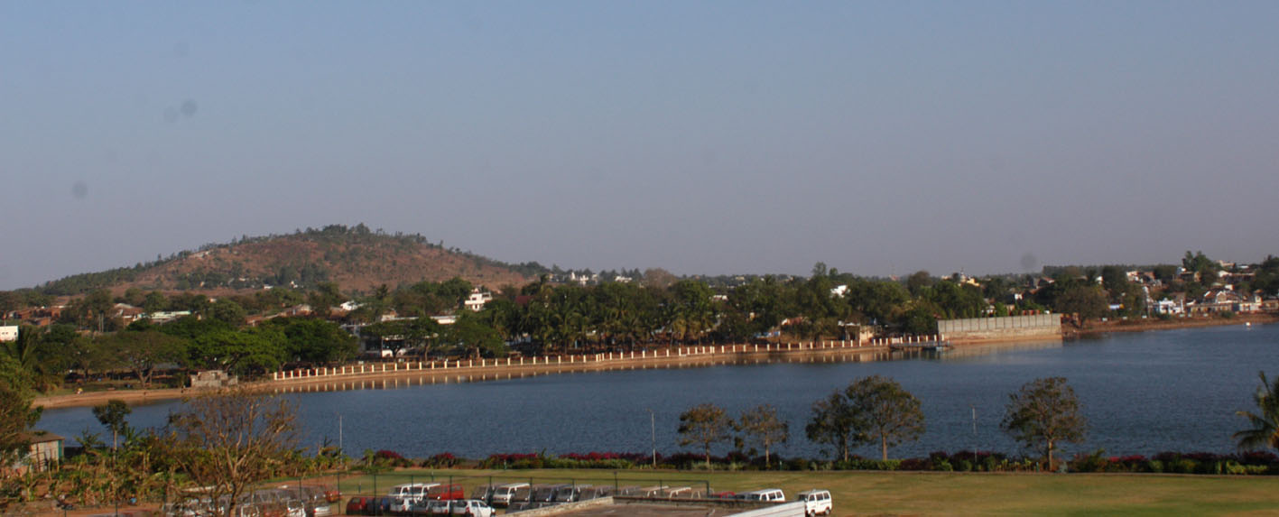 One of the big lake in twin cities